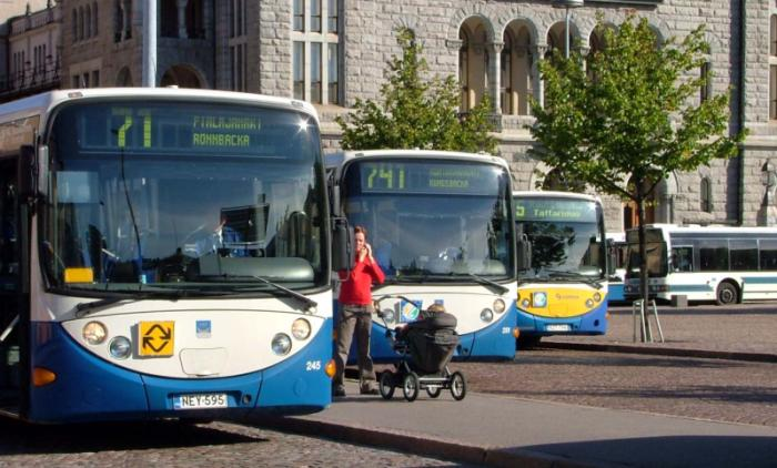 From left to right: Scania L94UB chassis/Lahti Scala body buses used for local and regional public transport at the Railway Square in the centre of Helsinki, Finland. The two frontmost are HKL's buses (#245, #241, HKL-Bussiliikenne, from 2005 – Helsingin Bussiliikenne Oy) built in 2002, the third is a Connex one (from 2007 – Veolia Transport Finland). The buses have a chassis by Scania and a Scala body by Lahden Autokori. (The stone building in the background is the Finnish National Theatre.)